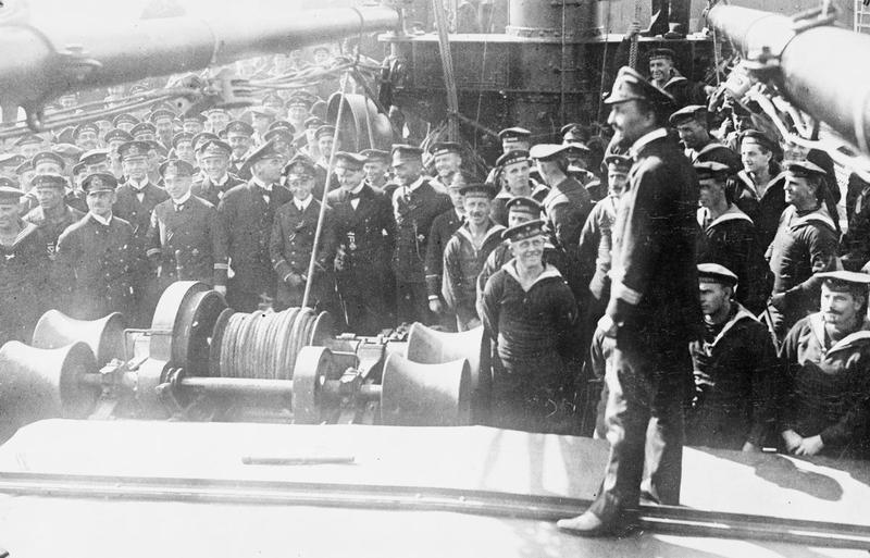 Geiser Theodore (mons) Collection Captain Count von und zu Dohna-Schlodien, Commander of the Mowe, addressing his crew on board the vessel after her return to Kiel on the 14th March 1917.